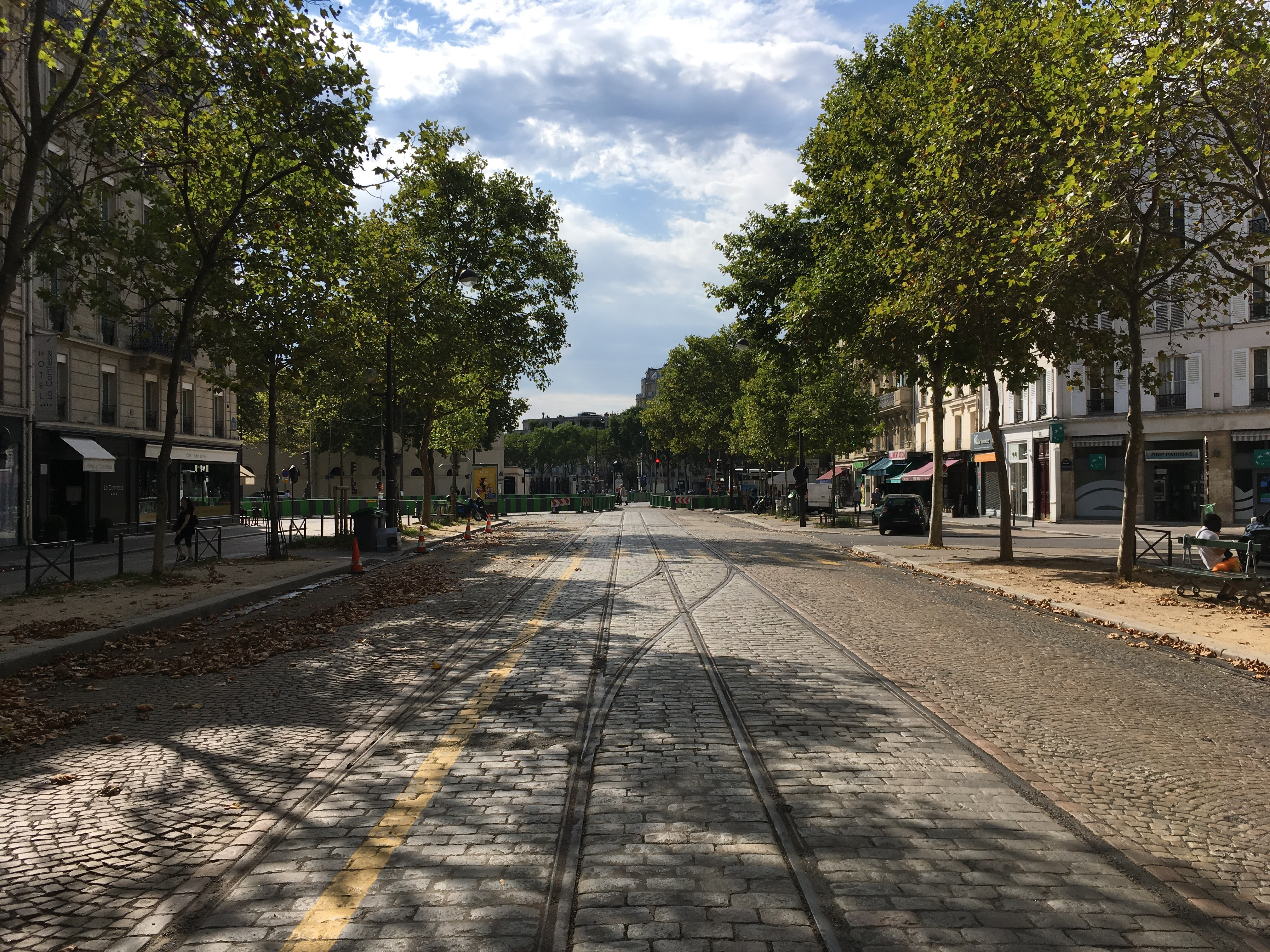 Paris. Avenue de Tourville. Abolished tram tracks of the former pre-WWII network, decommissioned in 1927-1937.